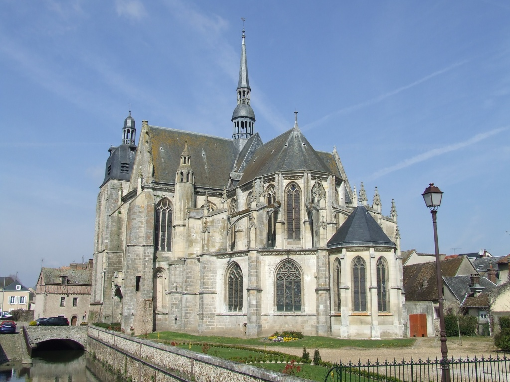 Saint-Sulpice Church in Nogent-le-Roi (Eure-et-Loir, France)